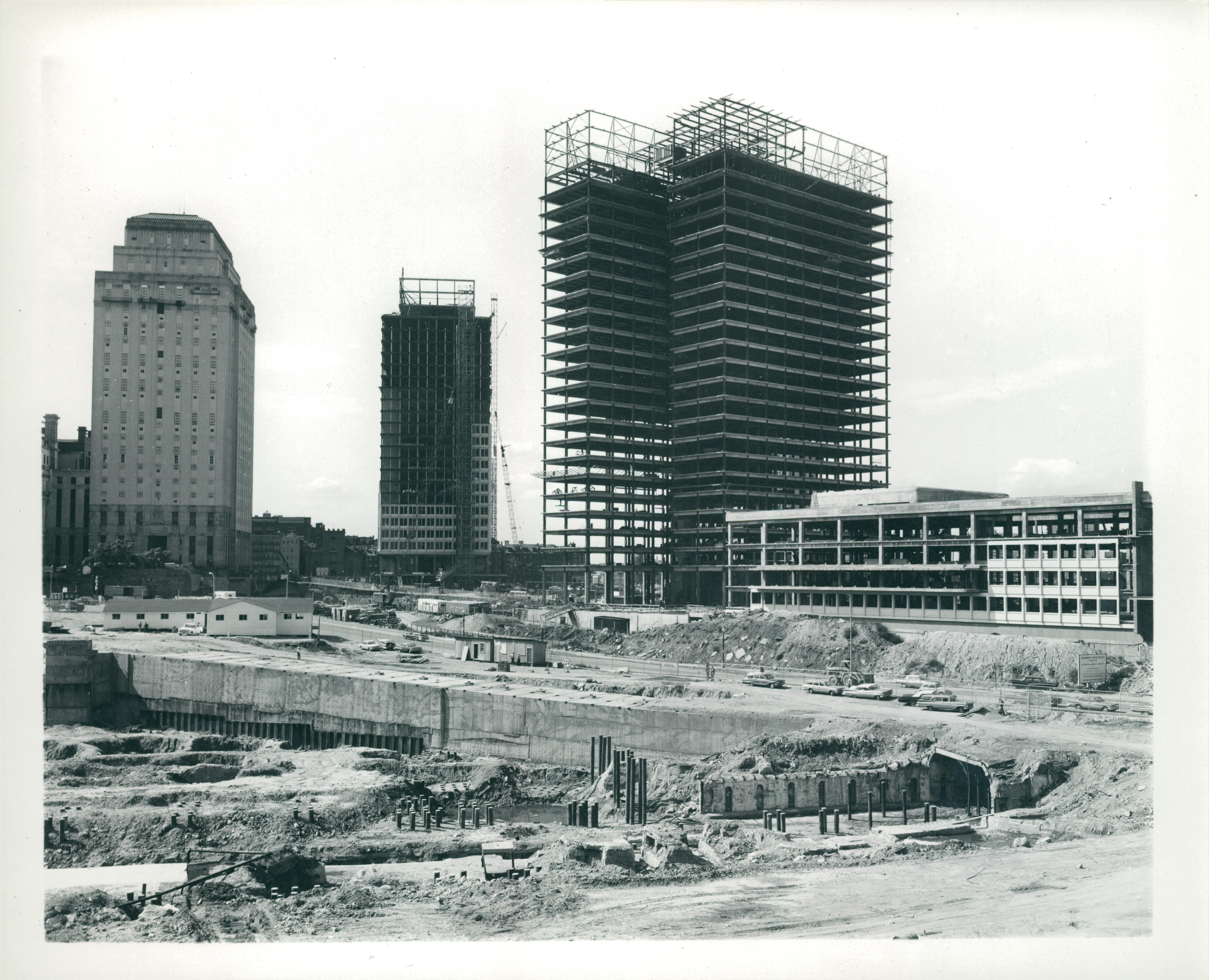 Title: City Hall area construction Creator: Boston Redevelopment Authority Date: circa 1964 Source: New York Streets Urban Renewal project, Boston Redevelopment Authority photographs, Collection # 4010.001 File name: R35_0029 Rights: Copyright City of Boston Citation: Boston Redevelopment Authority photographs, Collection # 4010.001, City of Boston Archives, Boston